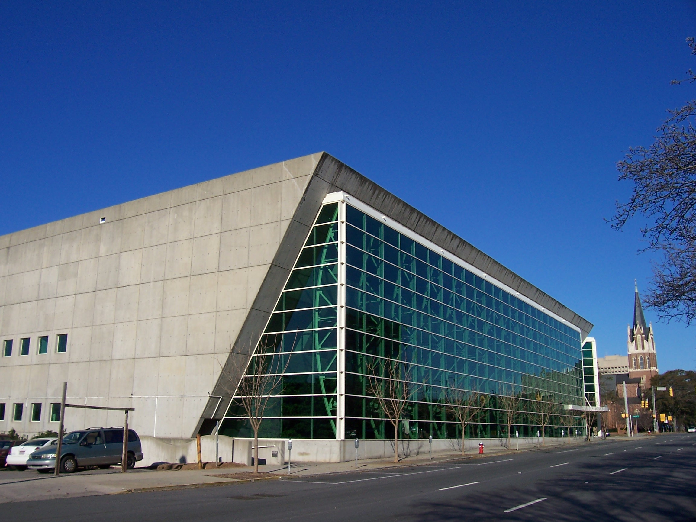 The Assembly Street face of the Richland County Public Library's Main Library in Columbia, South Carolina.